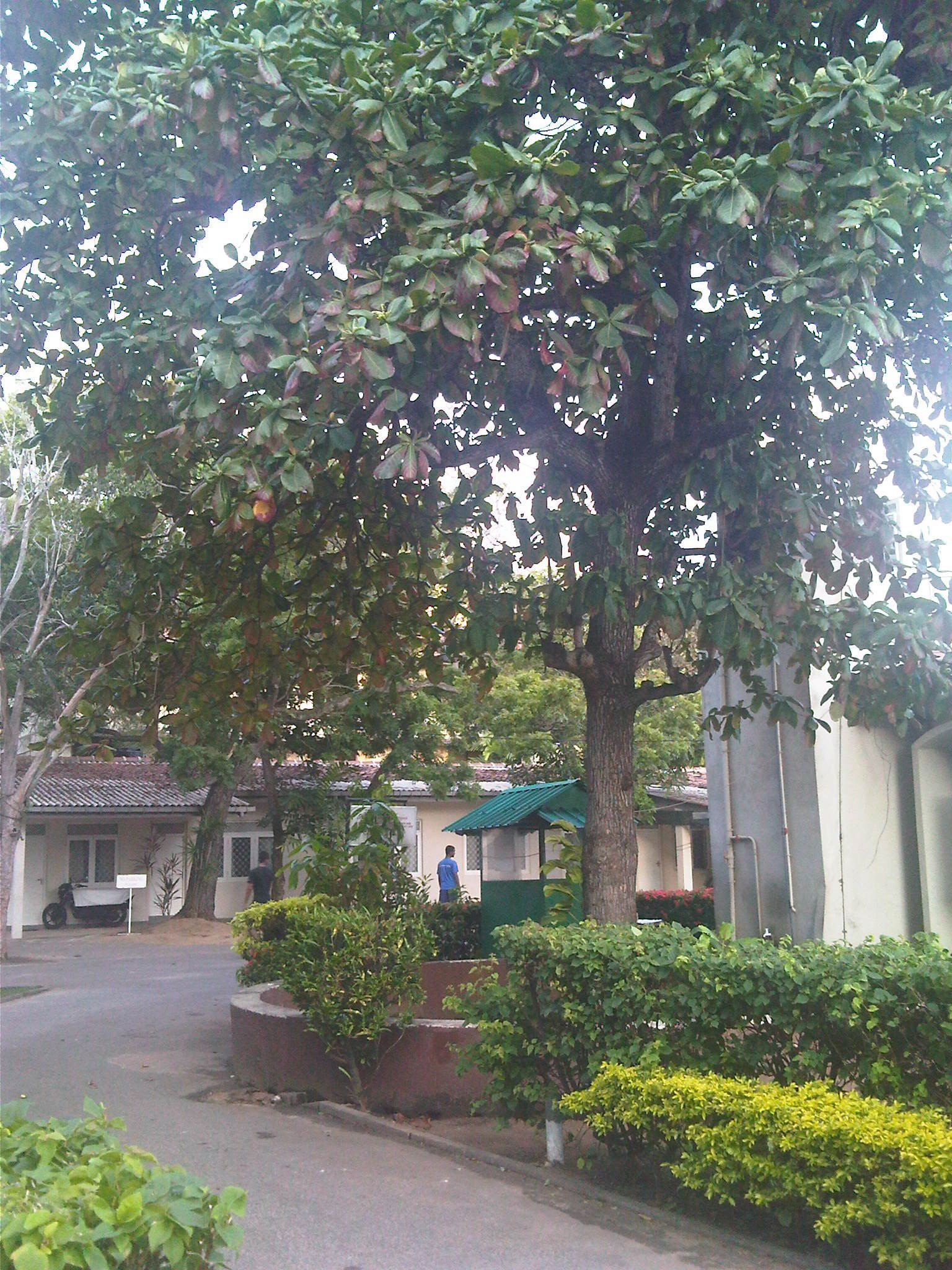 The courtyard at St.Paul's Church Milagiriya - one of the oldest churches in Sri Lanka.